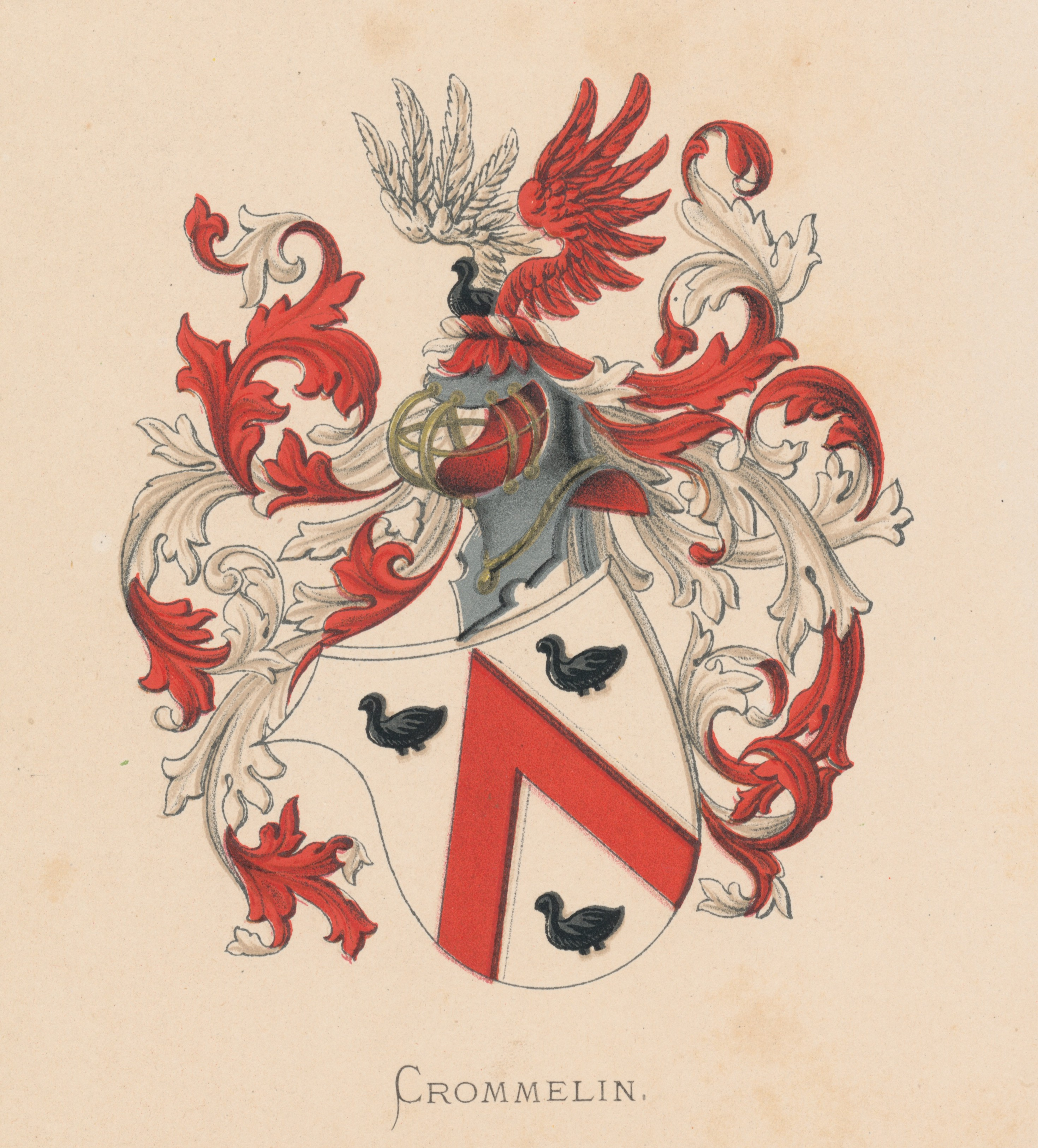 Coat of arms of the Crommelin family, still without the French lily getekend door de heraldicus en wapentekenaar C. W. H. Verster (overl. Driebergen 1921)